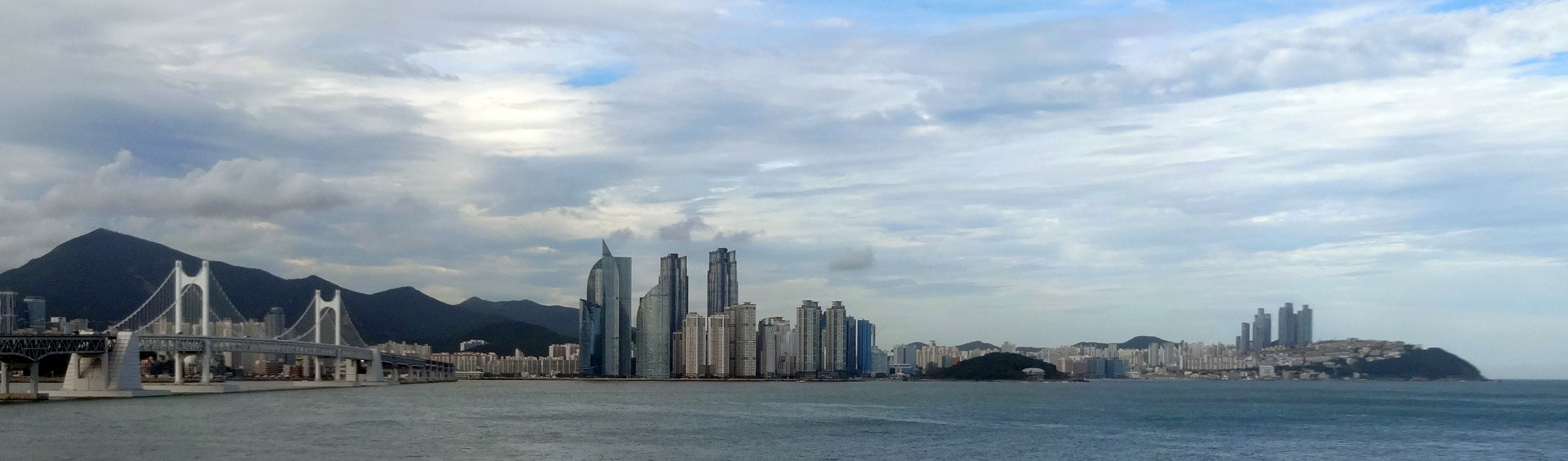 Skyline of Haeundae from Igidae. Busan, South Korea. Photograph from Flickr; author amanderson2; license of CC BY 2.0. Edited from original photograph (lighting, cropping, etc.).